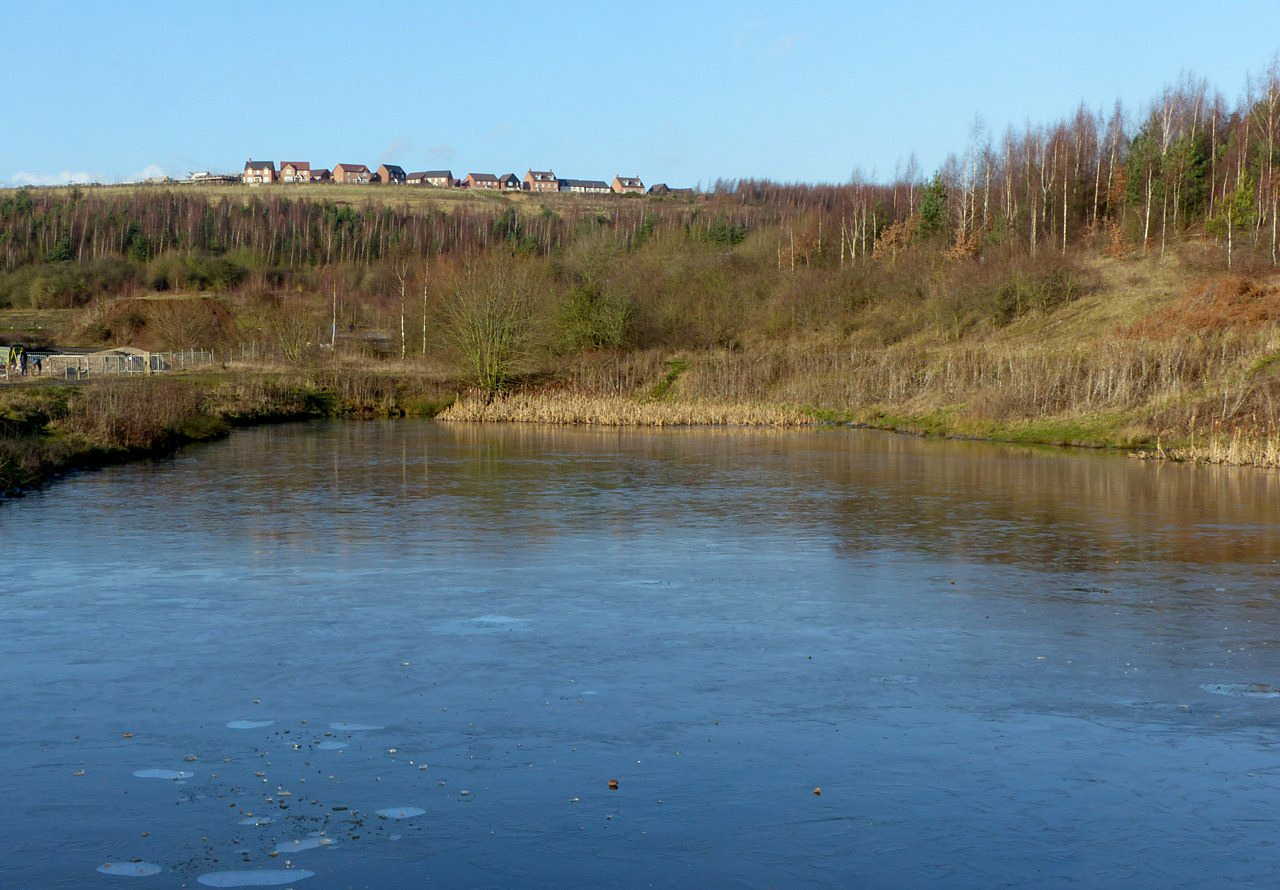 lagoon at gedling country park